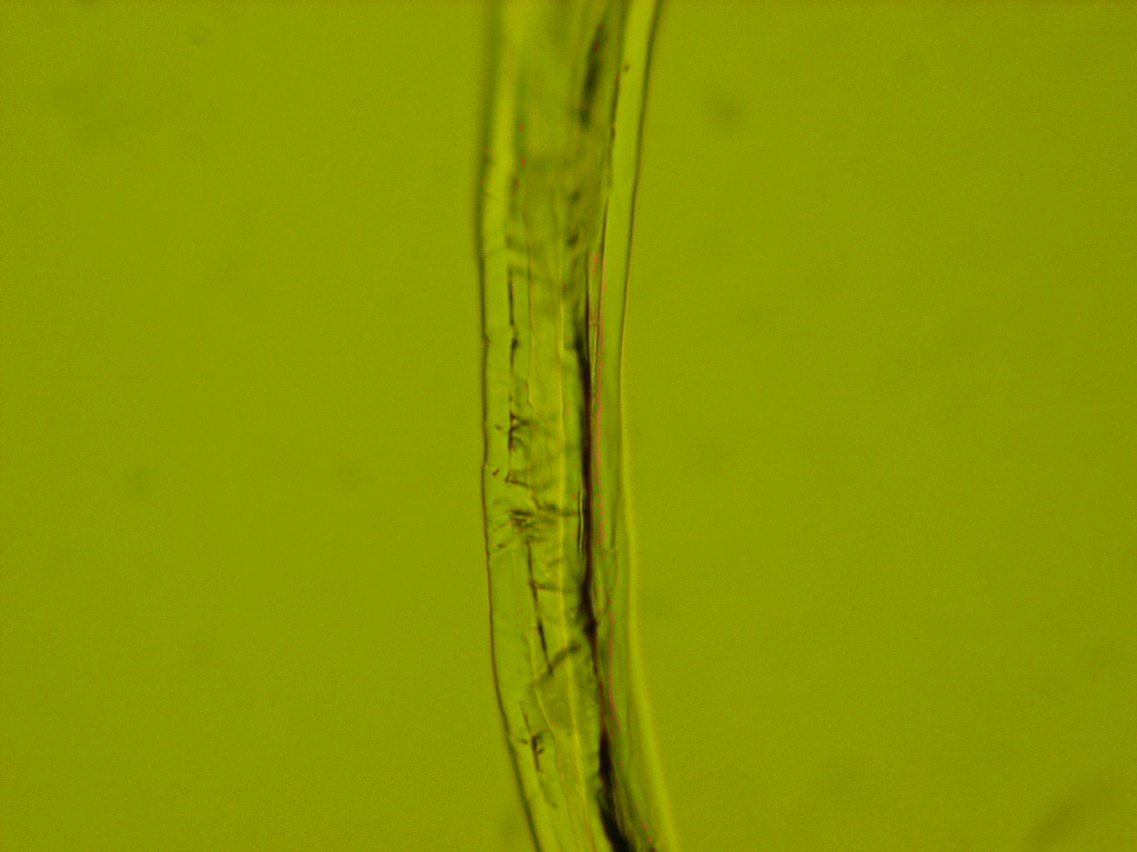 Cotton 40X Magnification Taken at Strathclyde University Forensic Science Department Taken By Edward Dowlman